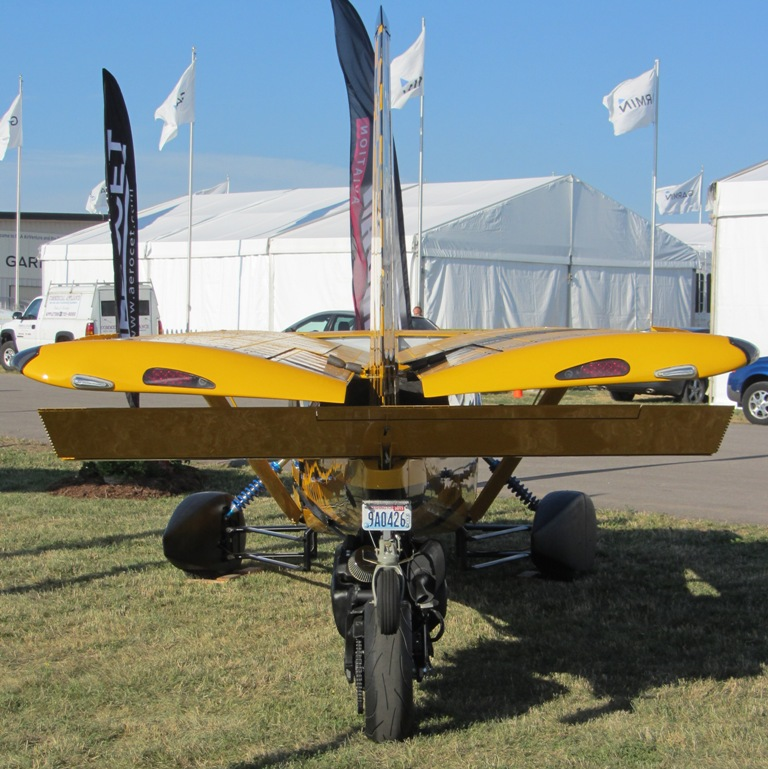 Plane Driven PD2 Rear